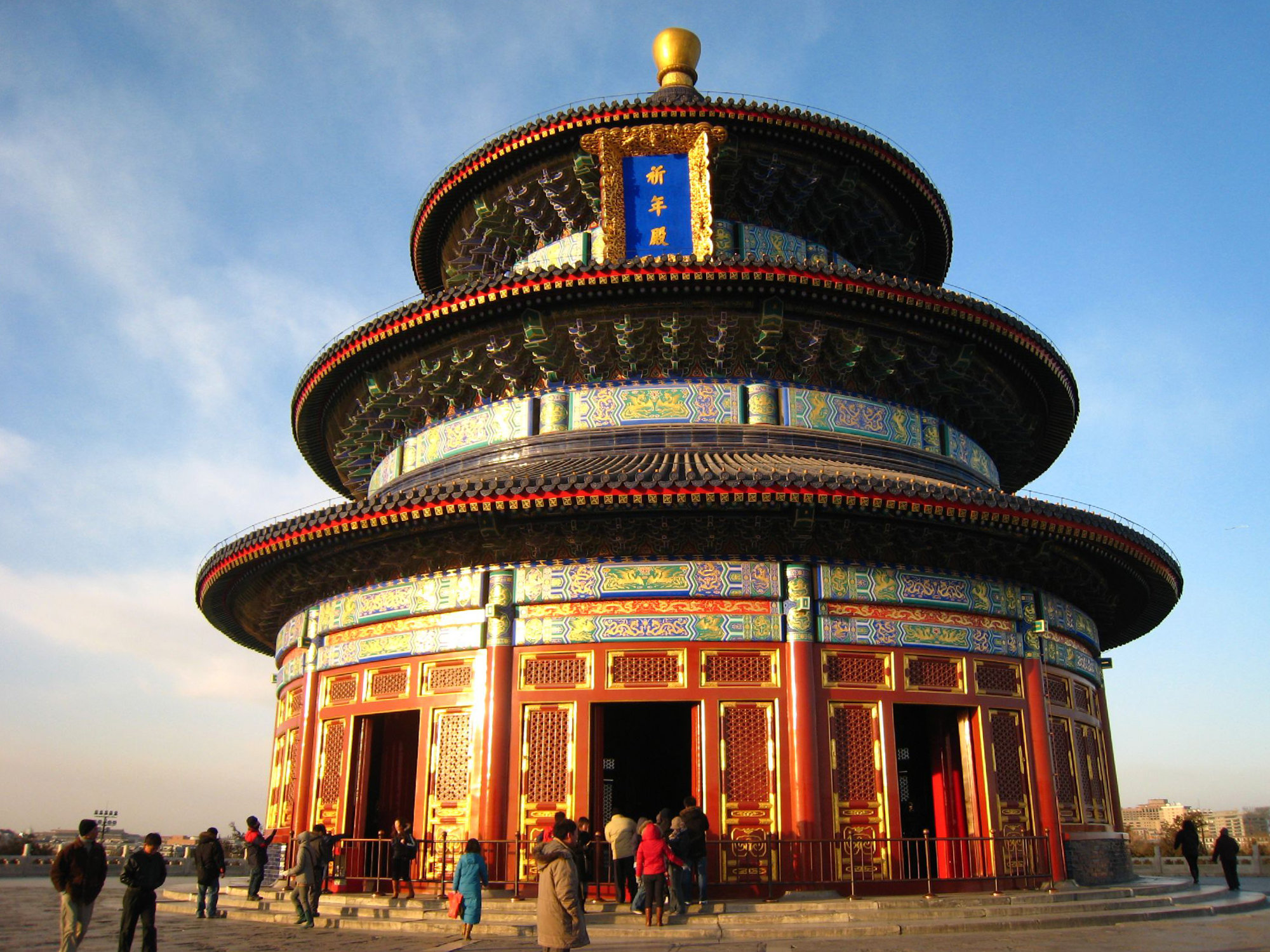 The Temple of Heaven in Beijing, China.